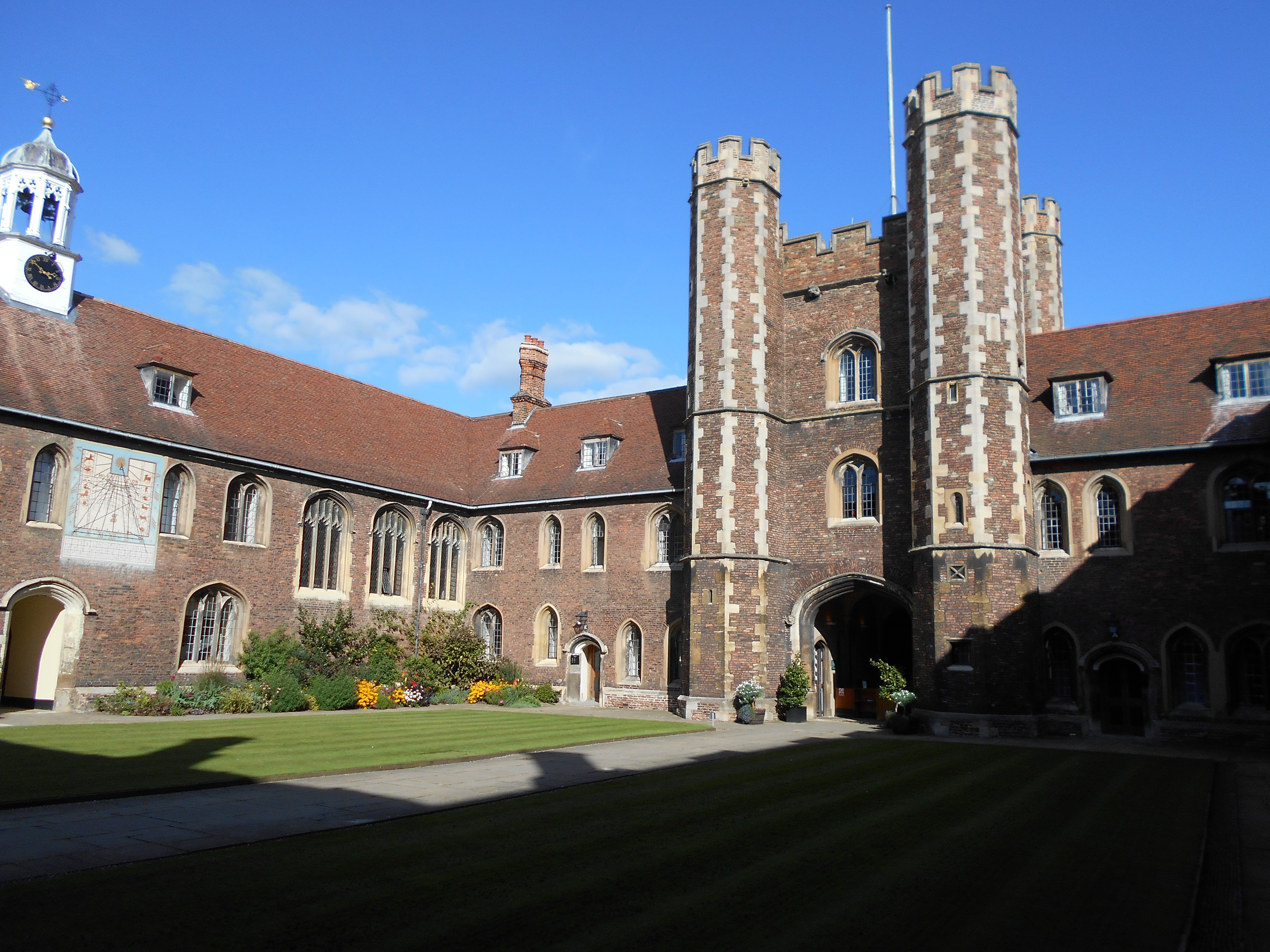 Queens' College Wikidata has entry Q765642 with data related to this item.